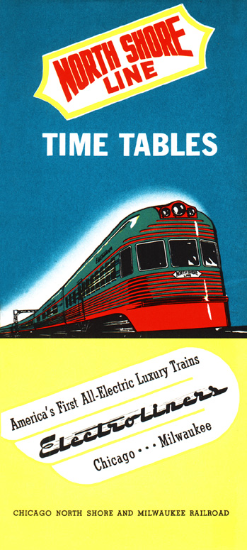 Chicago North Shore and Milwaukee Railroad public timetable dated February 9, 1941 — the first day of Electroliner service. Scan from contributor's collection.